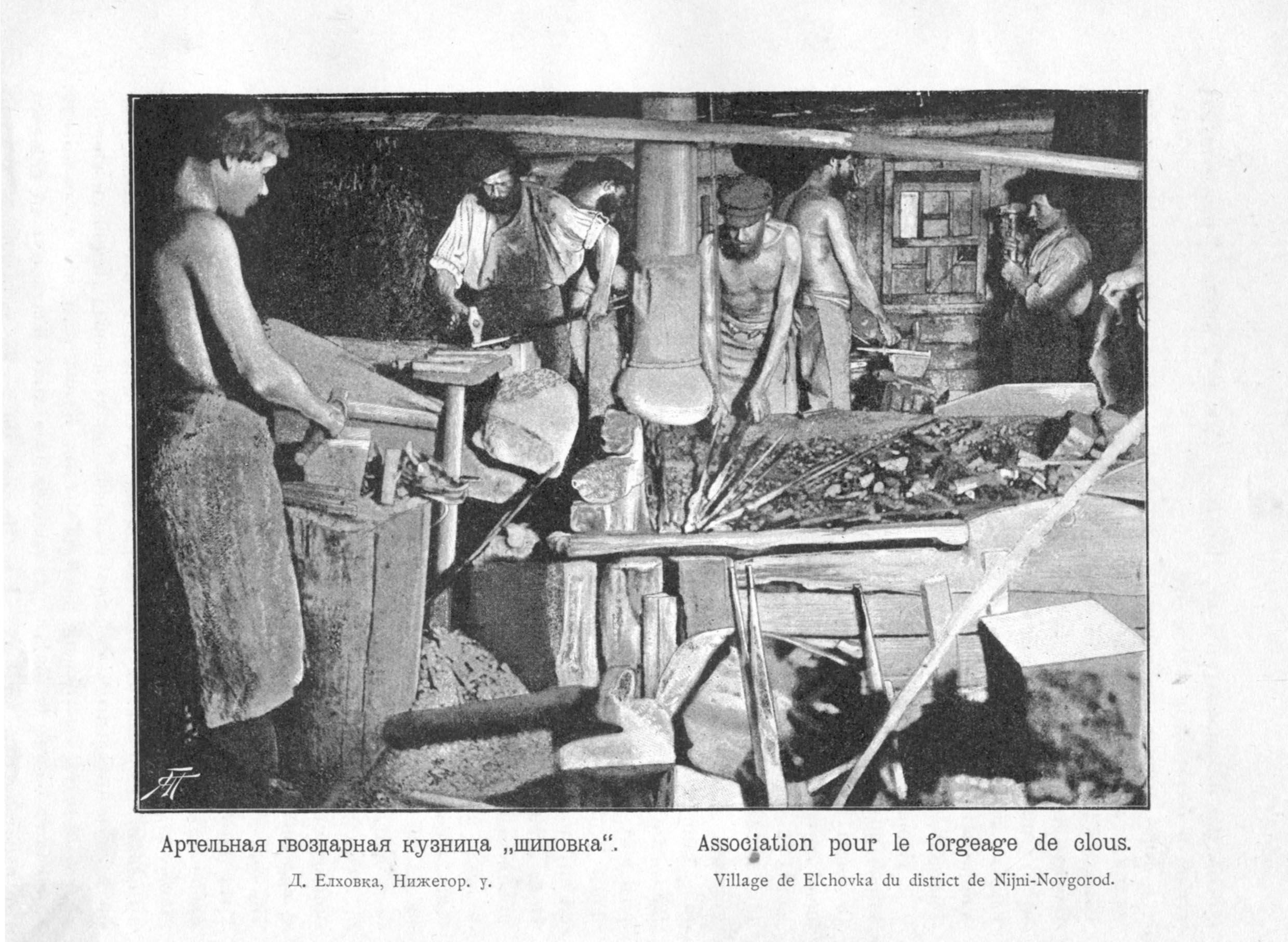 Handicraft Industry and Trades of Nizhegorodskaja gubernija. Elhovka. XIX c.